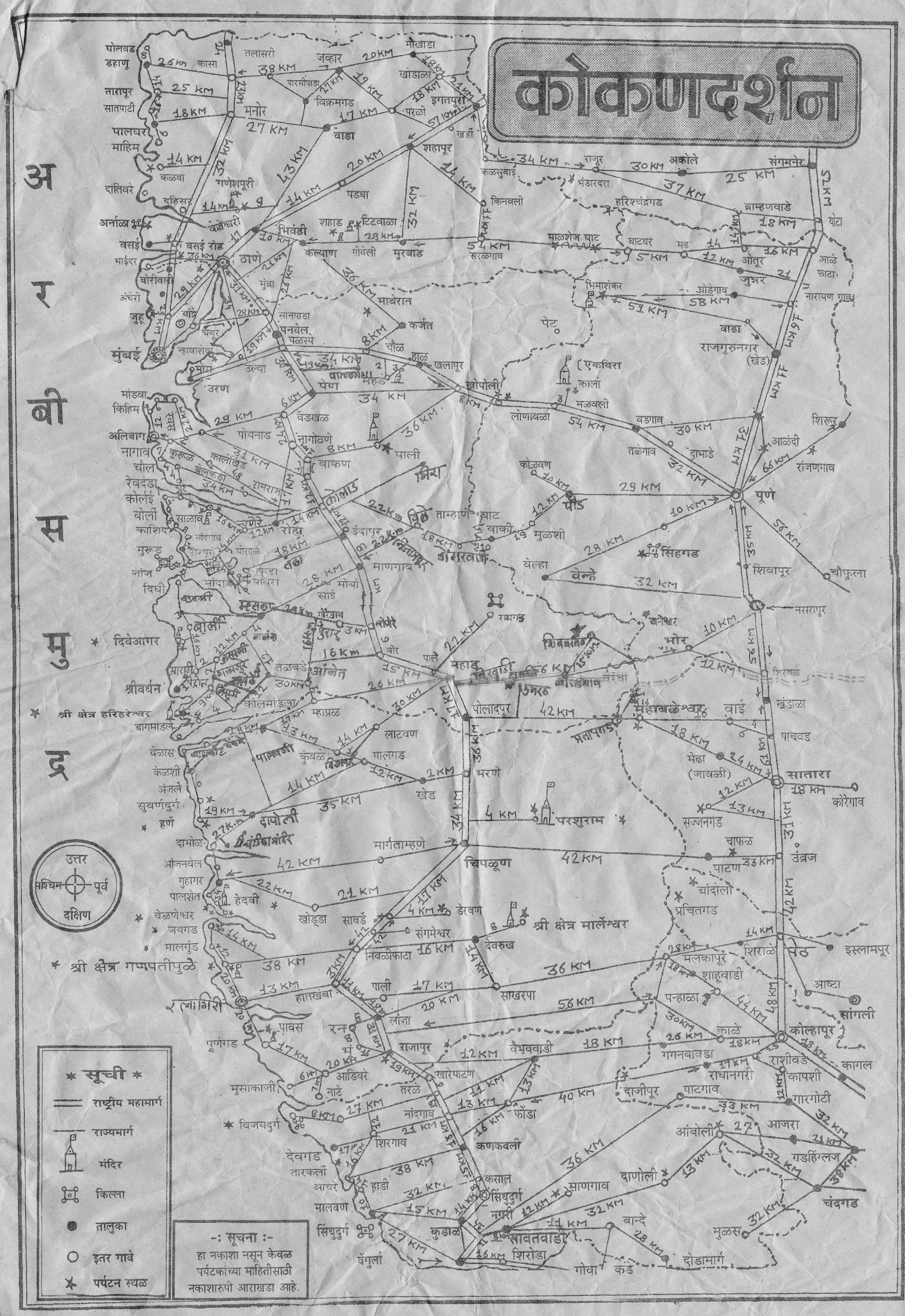 Tourist map of Konkan